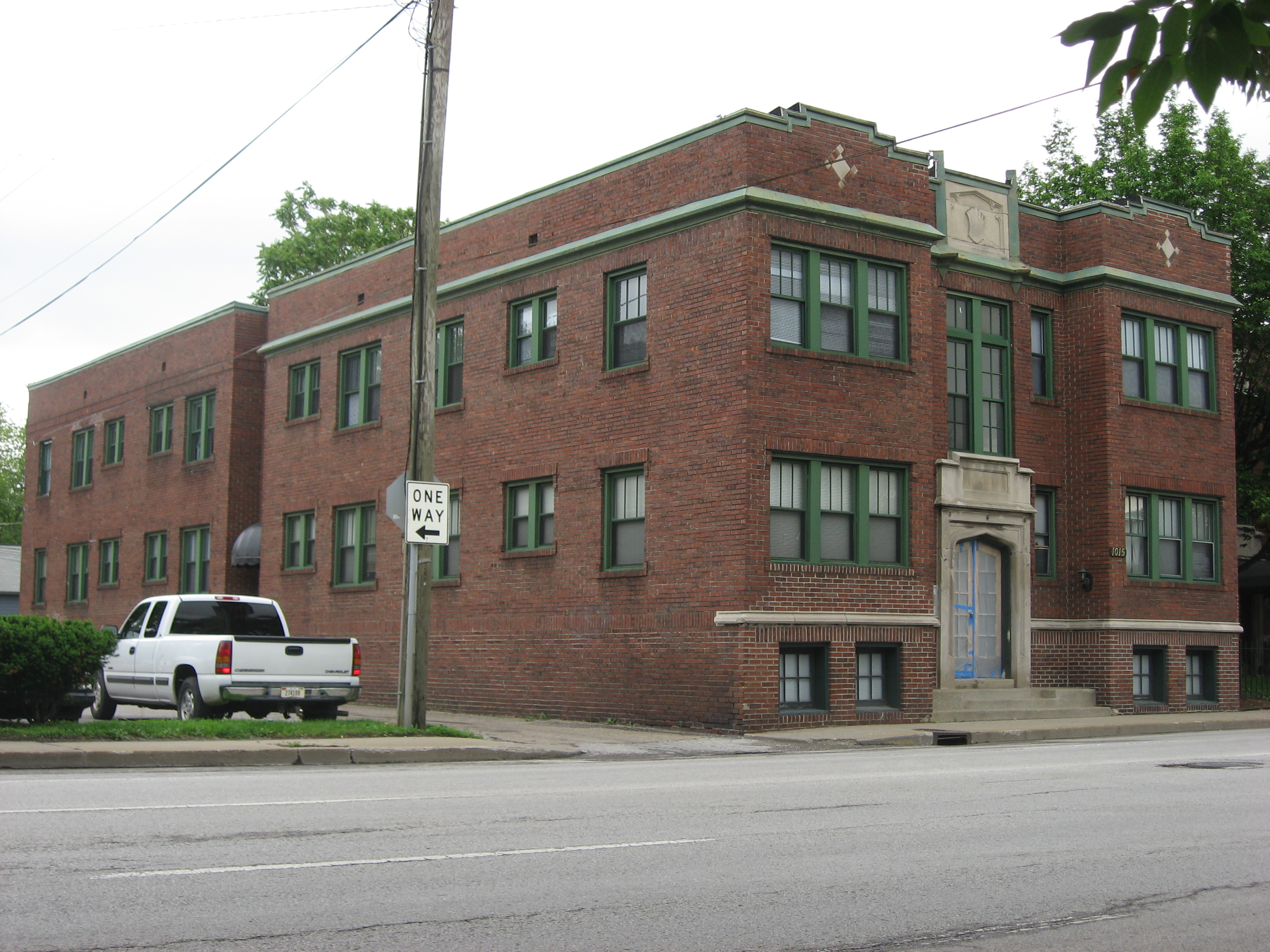 Northern side and front of the Delaware Court Apartments, located at 1001-1015 N. Delaware Street in Indianapolis, Indiana, United States. Built in 1917, it is listed on the National Register of Historic Places as one of the "Apartments and Flats of Downtown Indianapolis Thematic Resources".